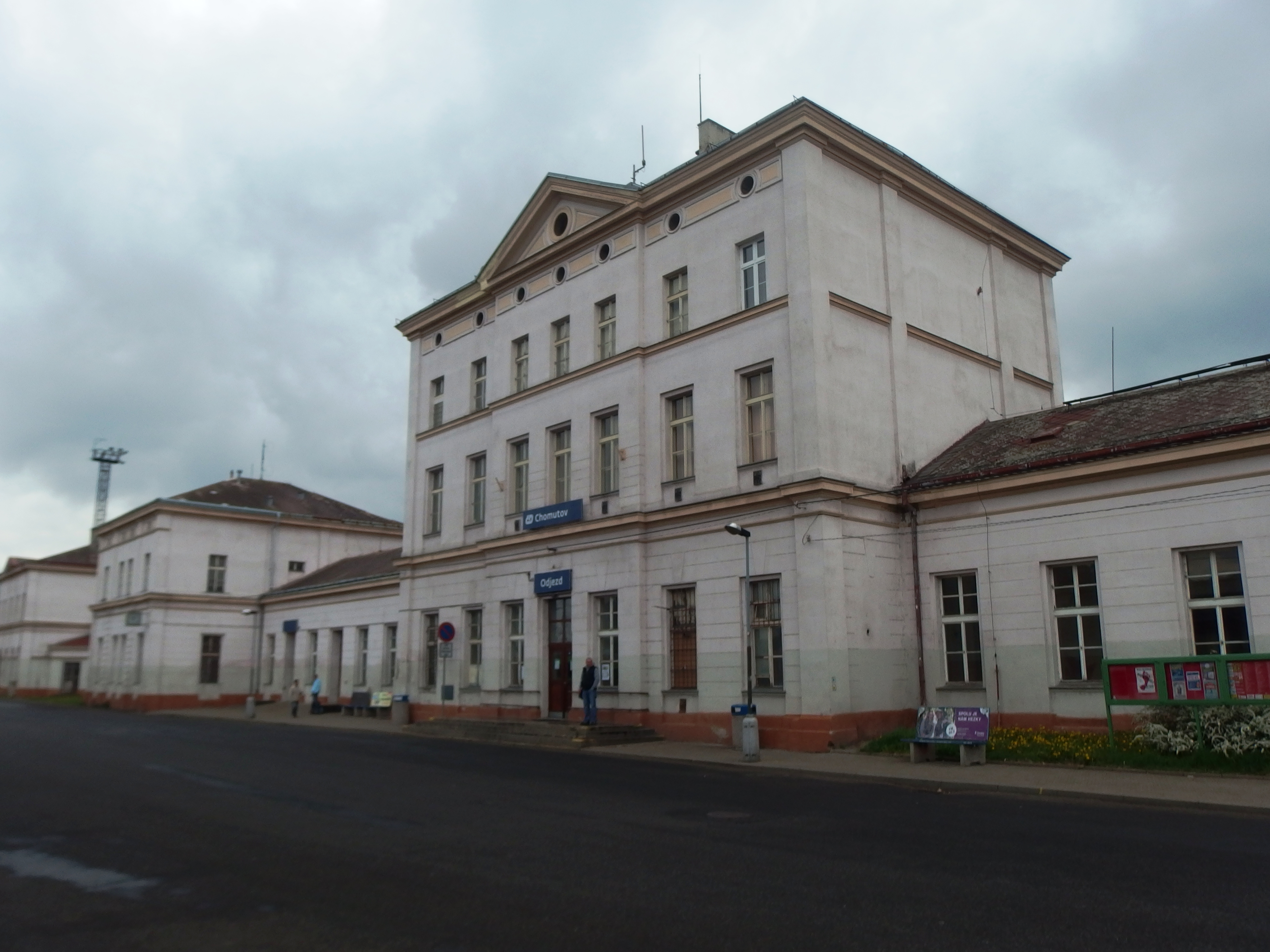 Chomutov, Czech Republic.